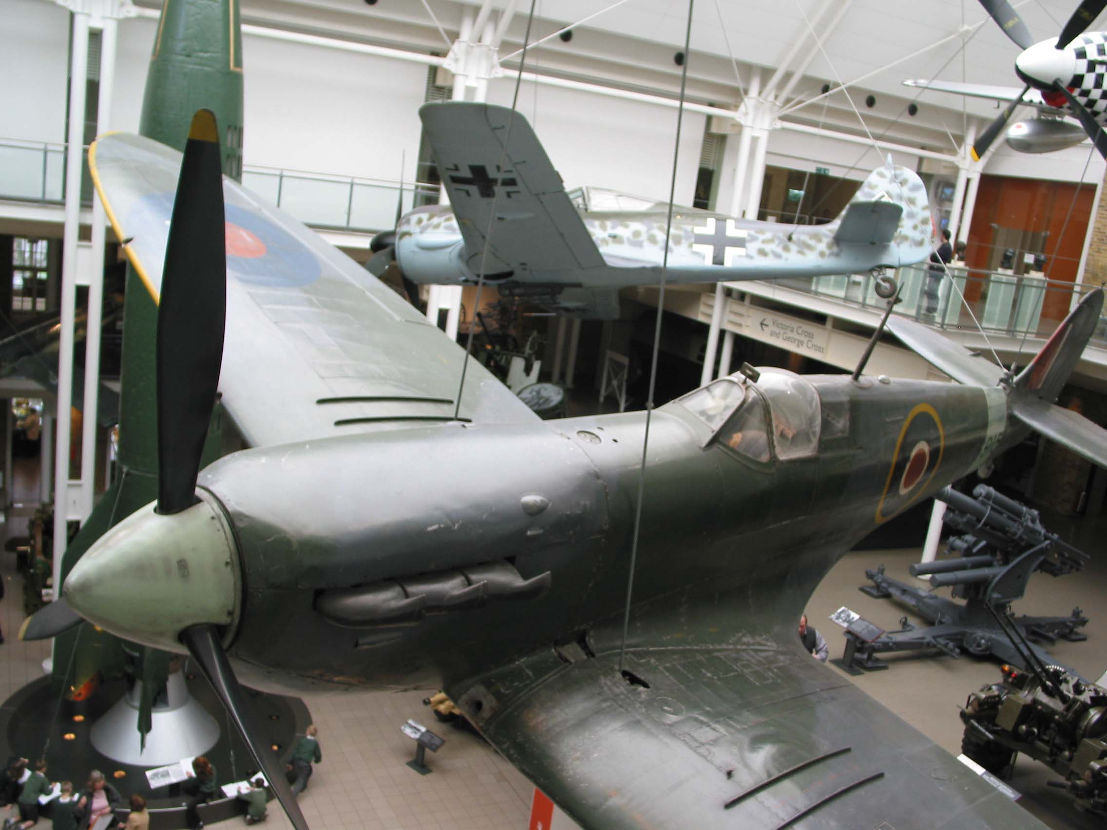 A British Spitfire fighter plane at the Imperial War Museum.